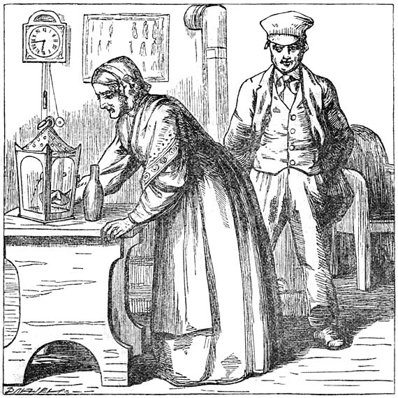 From 'Andersens Sproken en vertellingen' by Hans Christian Andersen, Titia van der Tuuk (ed.) and Simon Jacob Andriessen (trans.). Gebroeders E. & M. Cohen, Nijmegen - Arnhem. Illustrated by Alfred Walter Bayes (1832-1909) and engraved by the Dalziel Brothers (Edward Daziel, 1817-1905; George Daziel, 1815-1902).